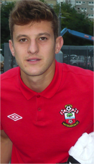 Adam Lallana after the Southampton vs Manchester Utd game